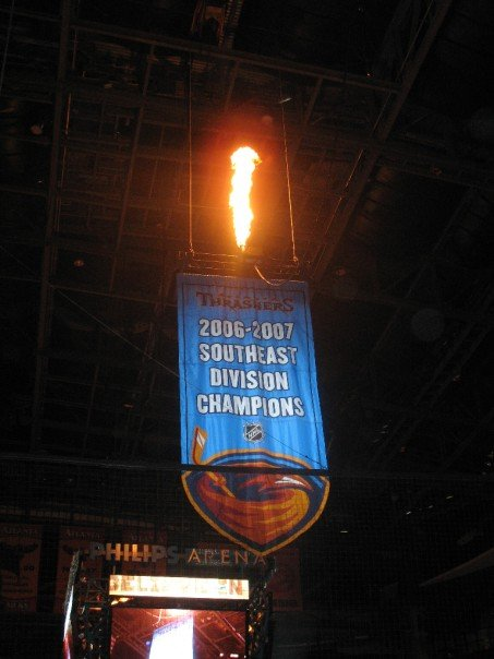 Atlanta Thrashers 2006-2007 Southeast Division Champions banner.